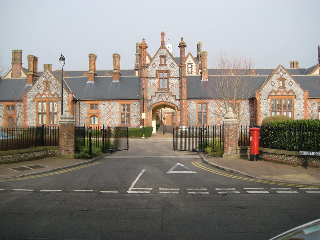 Amersham Old Town: Gilbert Scott Court (1) This gothic building in flint with brick facings was originally constructed as the Union Workhouse between 1838 and 1839 to the designs of Sir George Gilbert Scott. Around 1930 it became Amersham Hospital but on completion of the new hospital further up Whielden Street it was sold off for residential purposes. For a picture taken 6 minutes later see 722221.